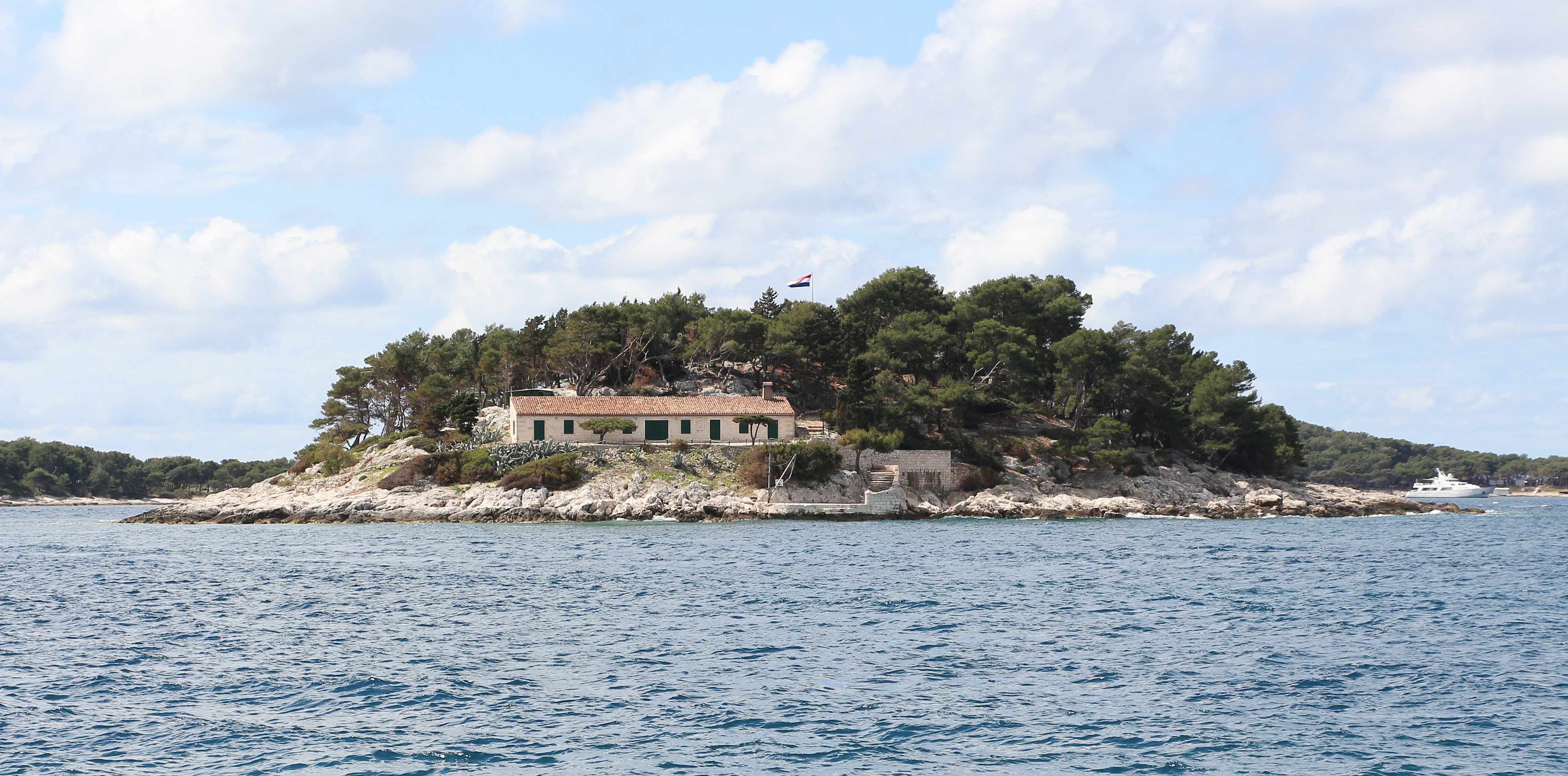 Gališnik Island, Hvar, Croatia